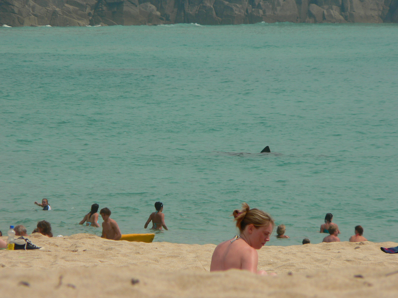 A basking shark visits Porthcurno Bay, Cornwall